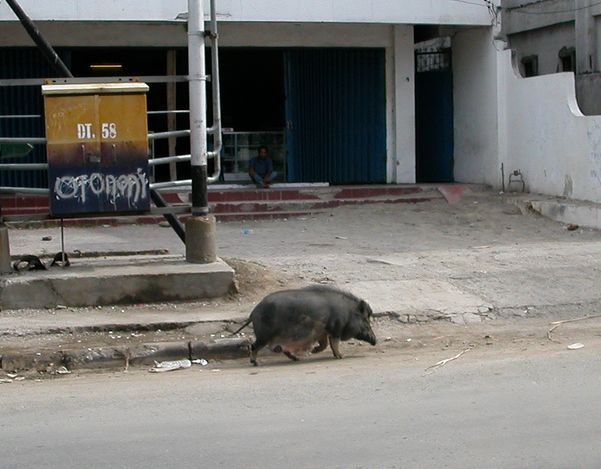 Pig on the road in Dili. So common in the streets of down town Dili that nobody turns a head